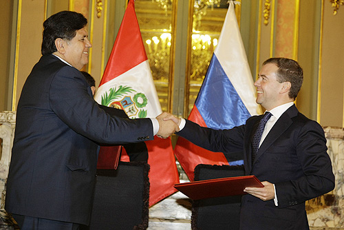 LIMA, PERU. After the signing of joint statements. With President of Peru Alan García Pérez